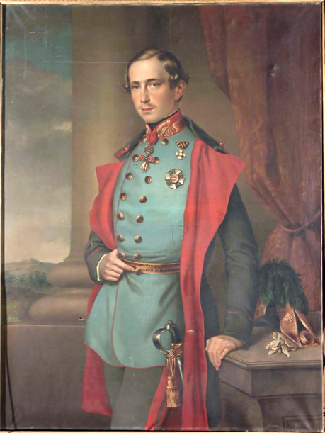 A portrait of Franz Joseph I of Austria realized in 1852, when he visited Transylvania.